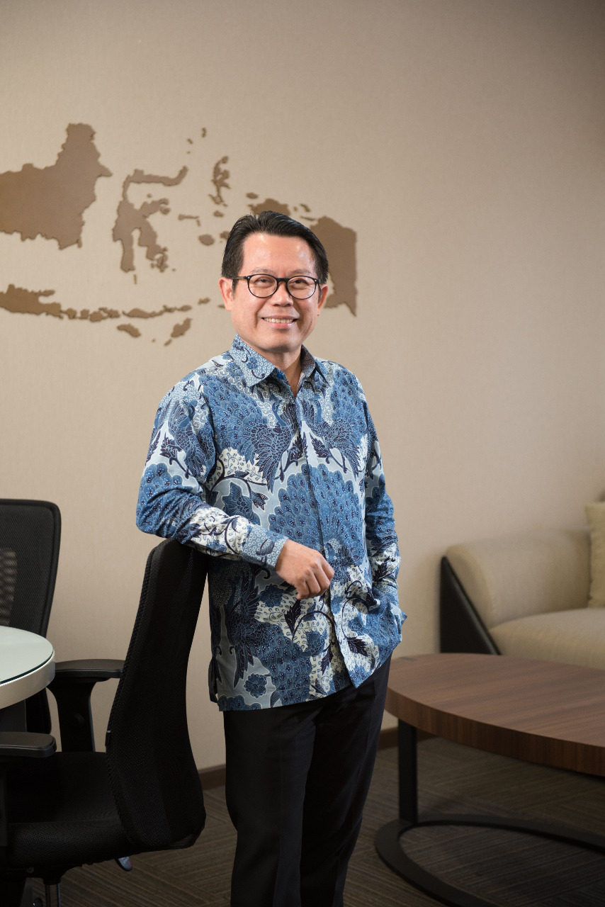 President Director PT. Bank Index Selindo